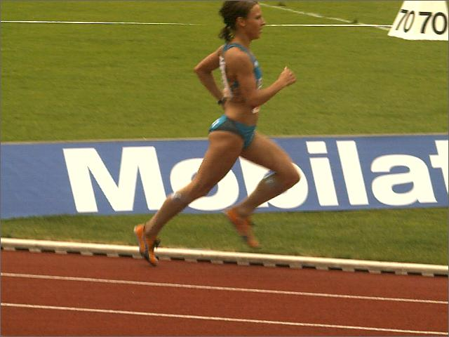 German track and field athlete Sabrina Mockenhaupt, picture taken by -user Historyk in Bochum, 2004.